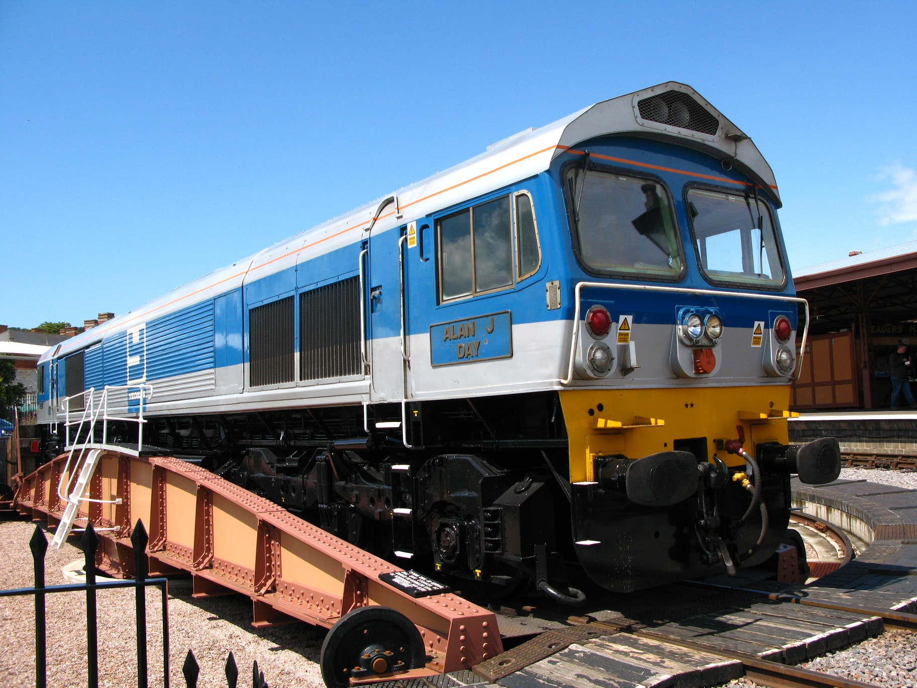 A Mendip Rail Class 59 diesel-electric, 59002 Alan J Day, on display at Minehead on the West Somerset Railway. This class of locomotive has worked trains of stone to Minehead for sea defence works, but on this occasion four of the class were visiting for a gala to mark th 35th anniversary of them entering traffic.